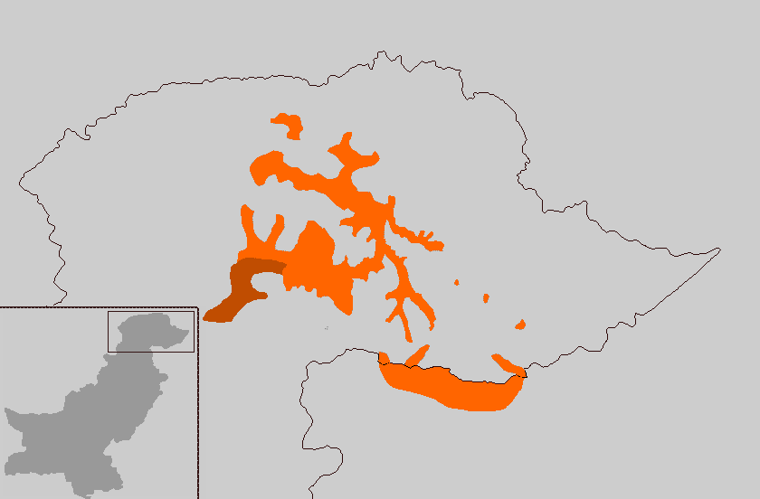 Source: Language map of Pakistan